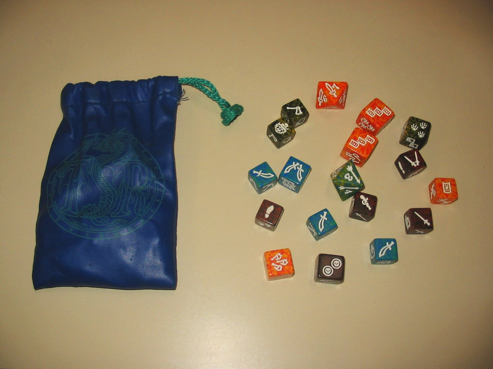 A picture of some Dragon Dice, taken by me